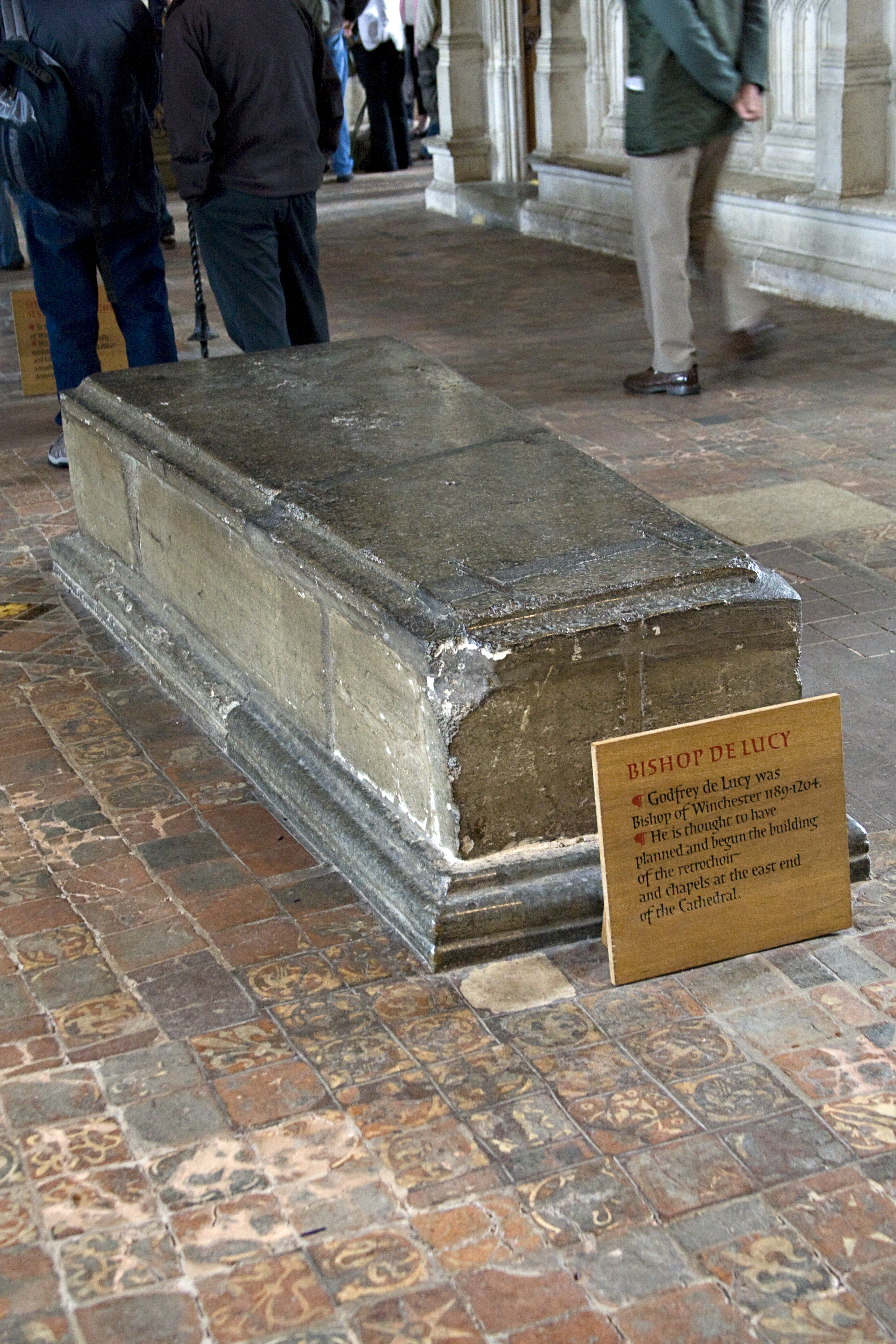 The tomb of Godfrey de Lucy, Bishop of Winchester, in Winchester Cathedral